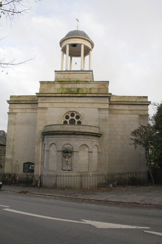 Photograph of the west end of St John's Church, Truro